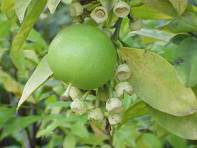 Species: Citrus maxima Family: Rutaceae Image No. 1